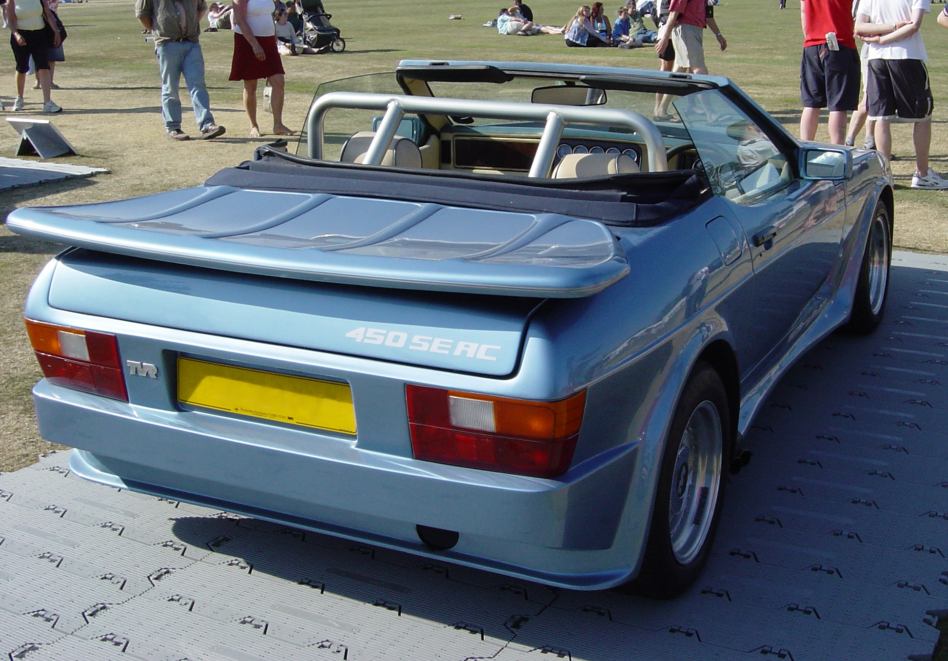 Gorgeous 1989 TVR 450SEAC (rear view) - the last of the wedges. Taken at the 2003 Goodwood Festival of Speed